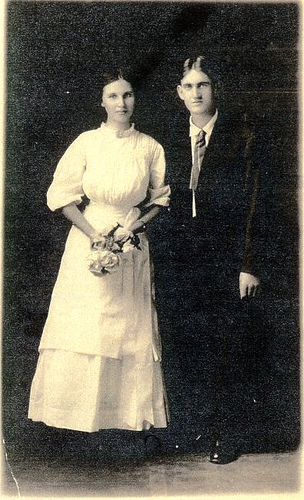 Wedding photo of Audrey Morford and husband John Stubbart circa, 1911.